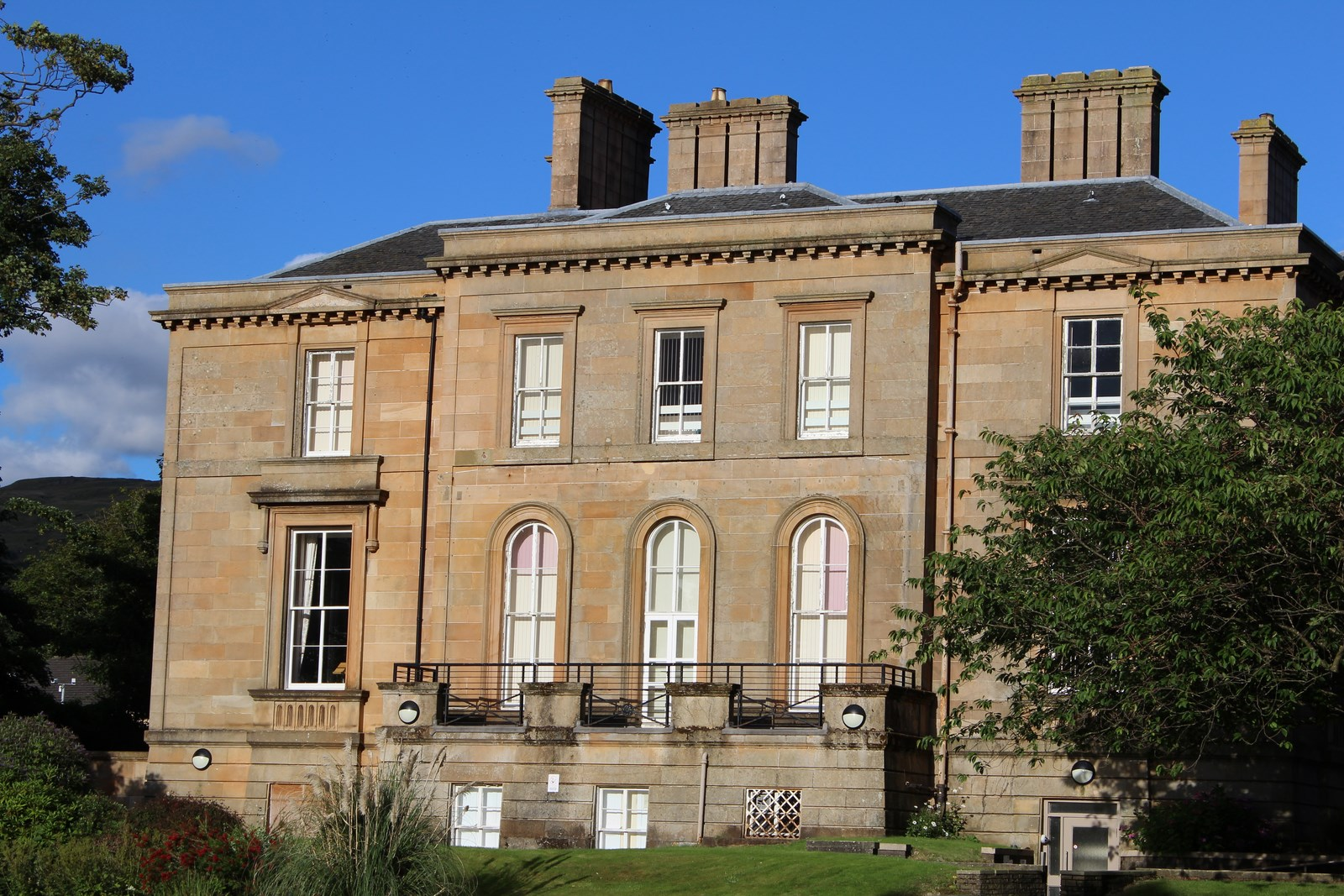 Brooksby Medical & Resource Centre, Largs